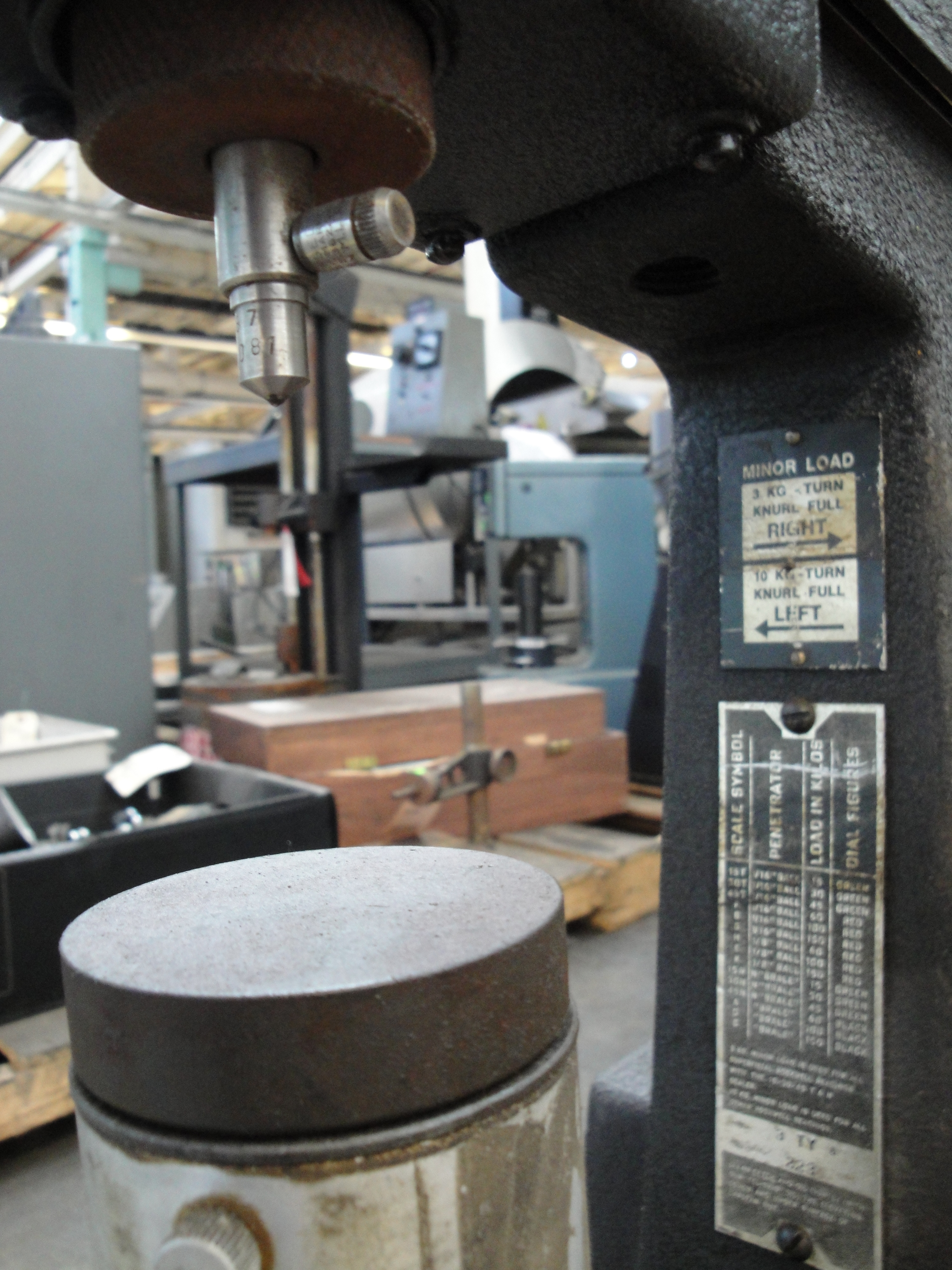 A closeup of the business end of a Rockwell-type hardness tester.